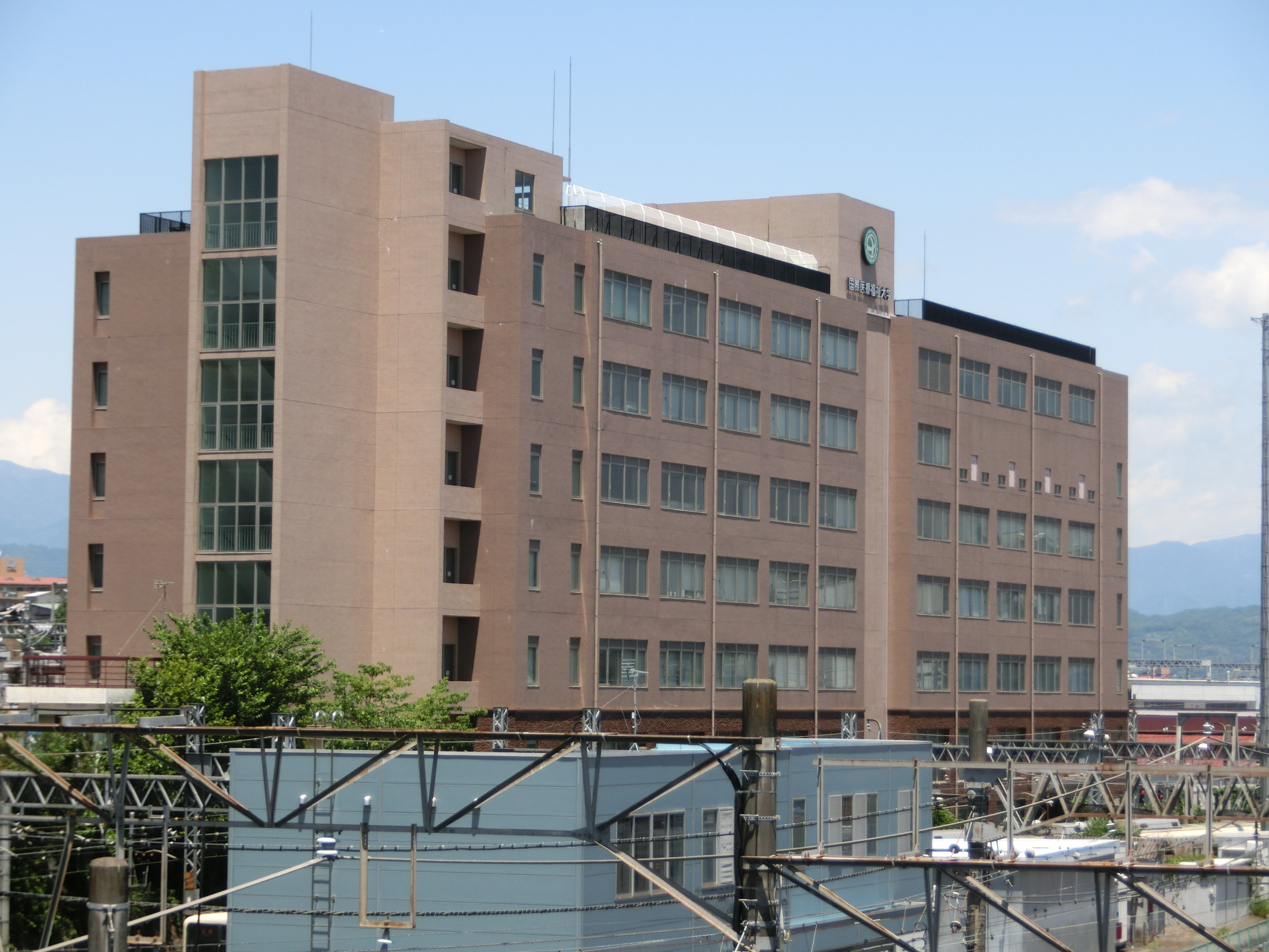 IUHW Odawara Campus